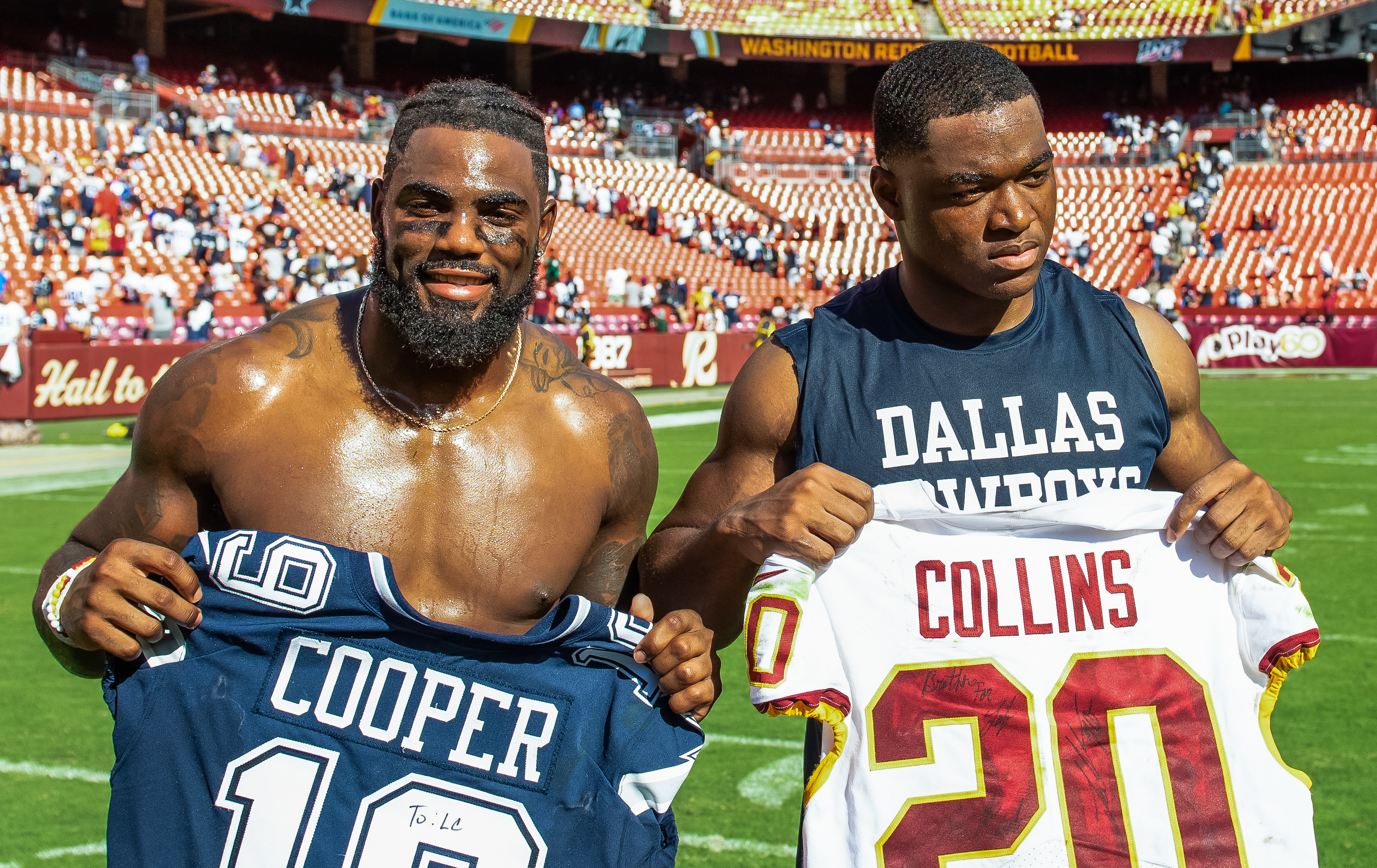 In 2019